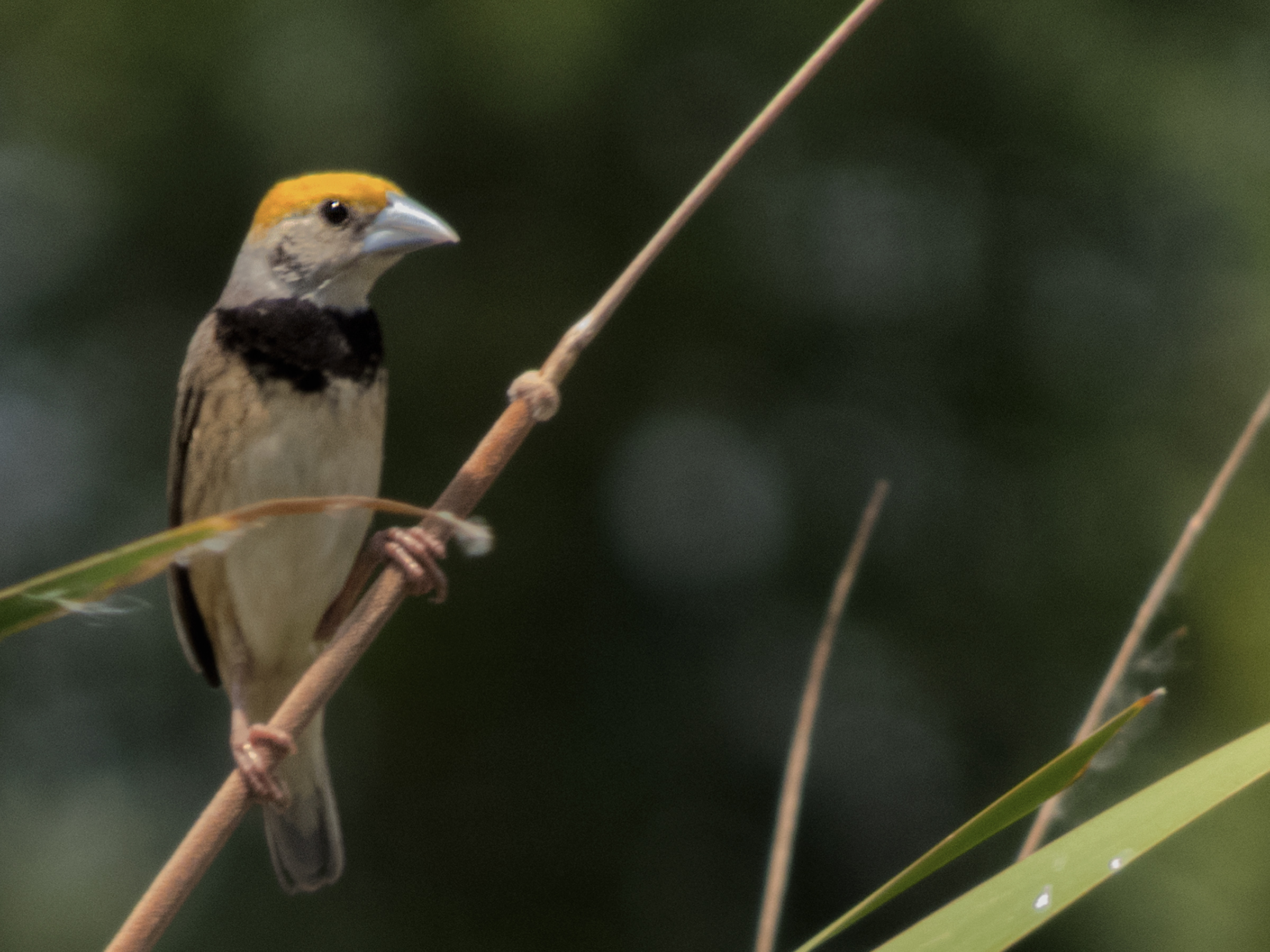 Black breasted weaver in breeding plumage in Hampi vicinity, Bellary district, Karnataka, South India. May 2019